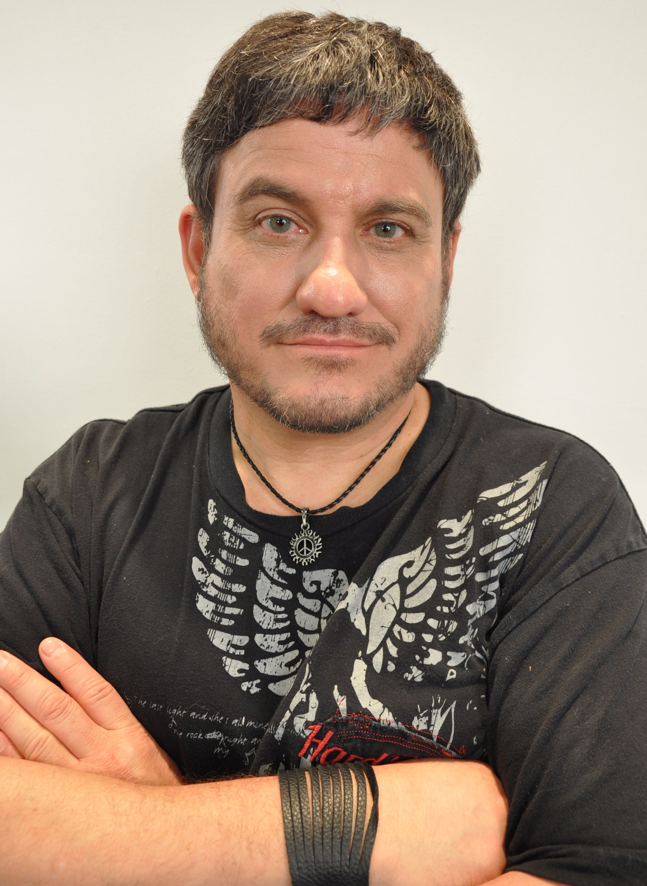 I, Dakota Coppola, took Mr. Lawton's picture on April 26, 2009. I release my work under the GFDL and CC-BY-SA licenses.